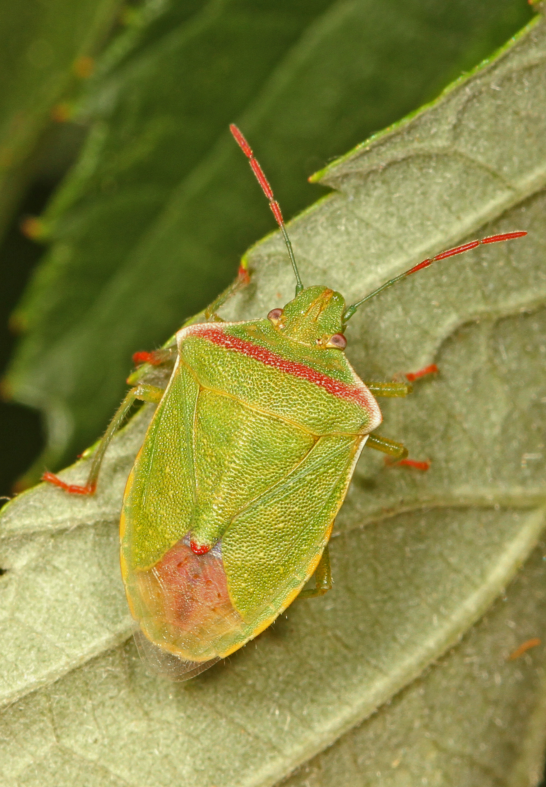 Stink Bug - Thyanta pallidovirens, Packer Lake, California.